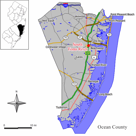 Source: Jim Irwin Original work by Jim Irwin, December 2005.